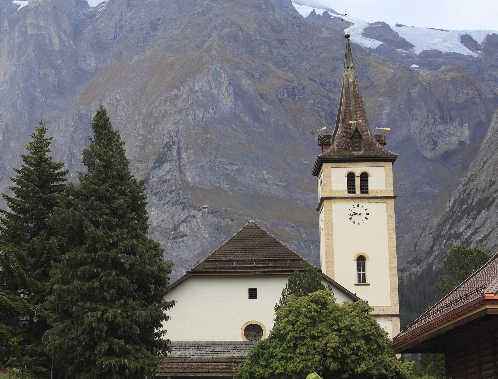 Church and Wetterhorn from Grindelwald